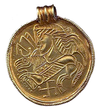 The bracteate Djupbrunns I from Sweden, bearing the runic charm word "alu".